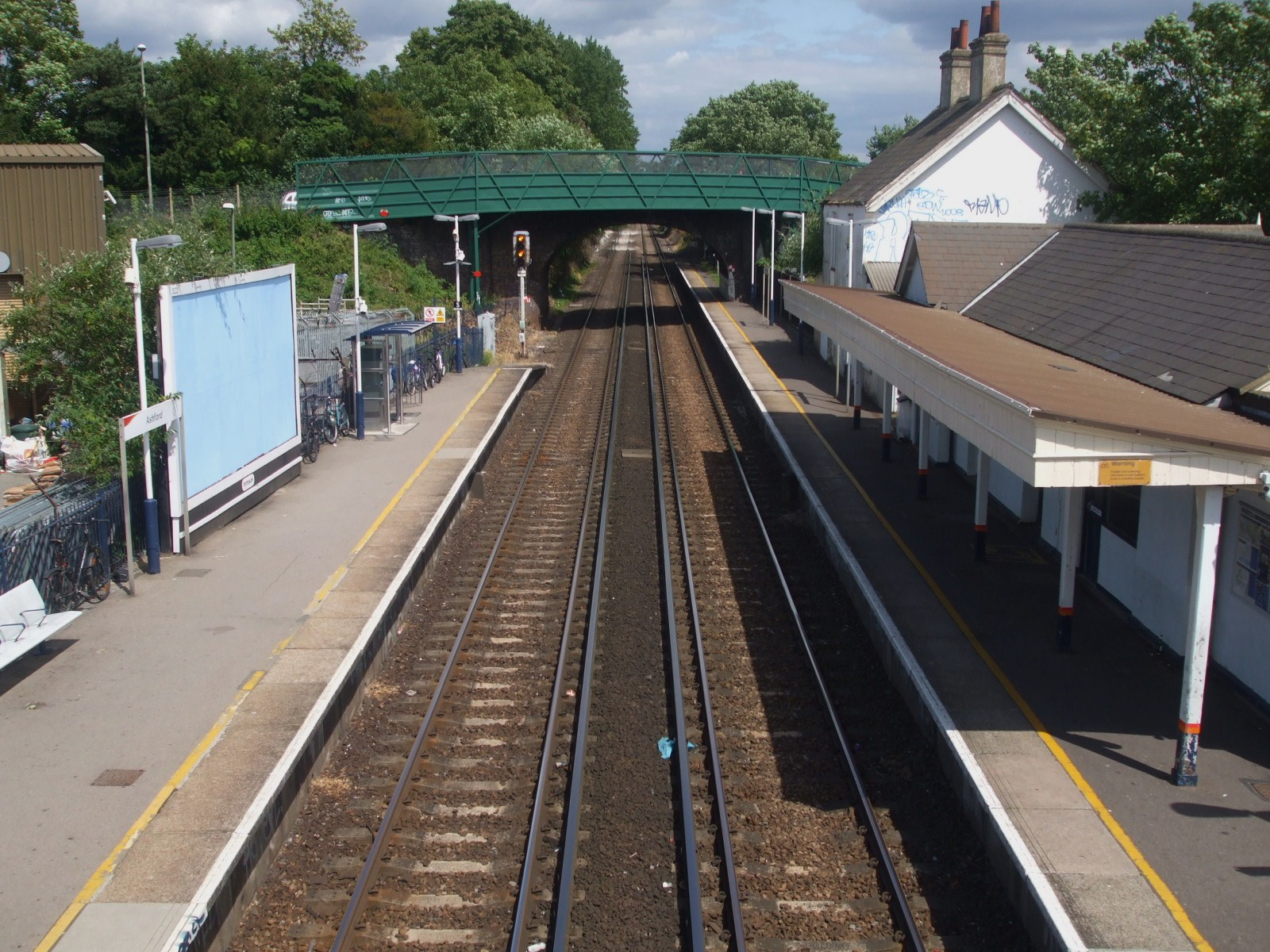 Ashford (Surrey) station looking east from footbridge